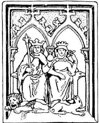 Illustration to The Queen Bee by Otto Ubbelohde